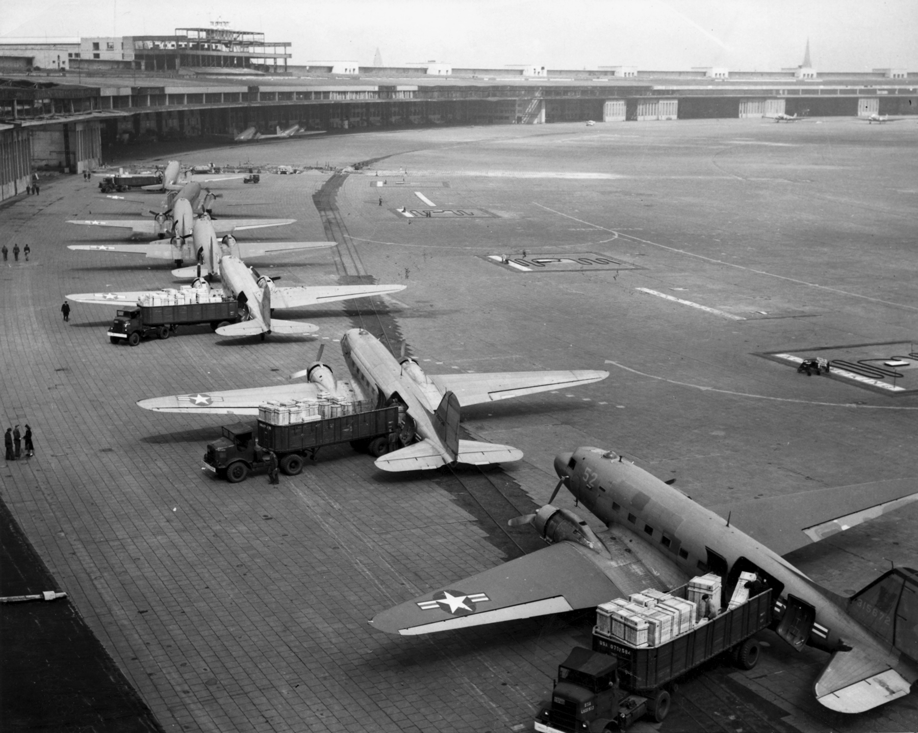 U.S. Navy Douglas R4D and U.S. Air Force C-47 aircraft unload at Tempelhof Airport during the Berlin Airlift. The first aircraft is a C-47A-90-DL (s/n 43-15672).